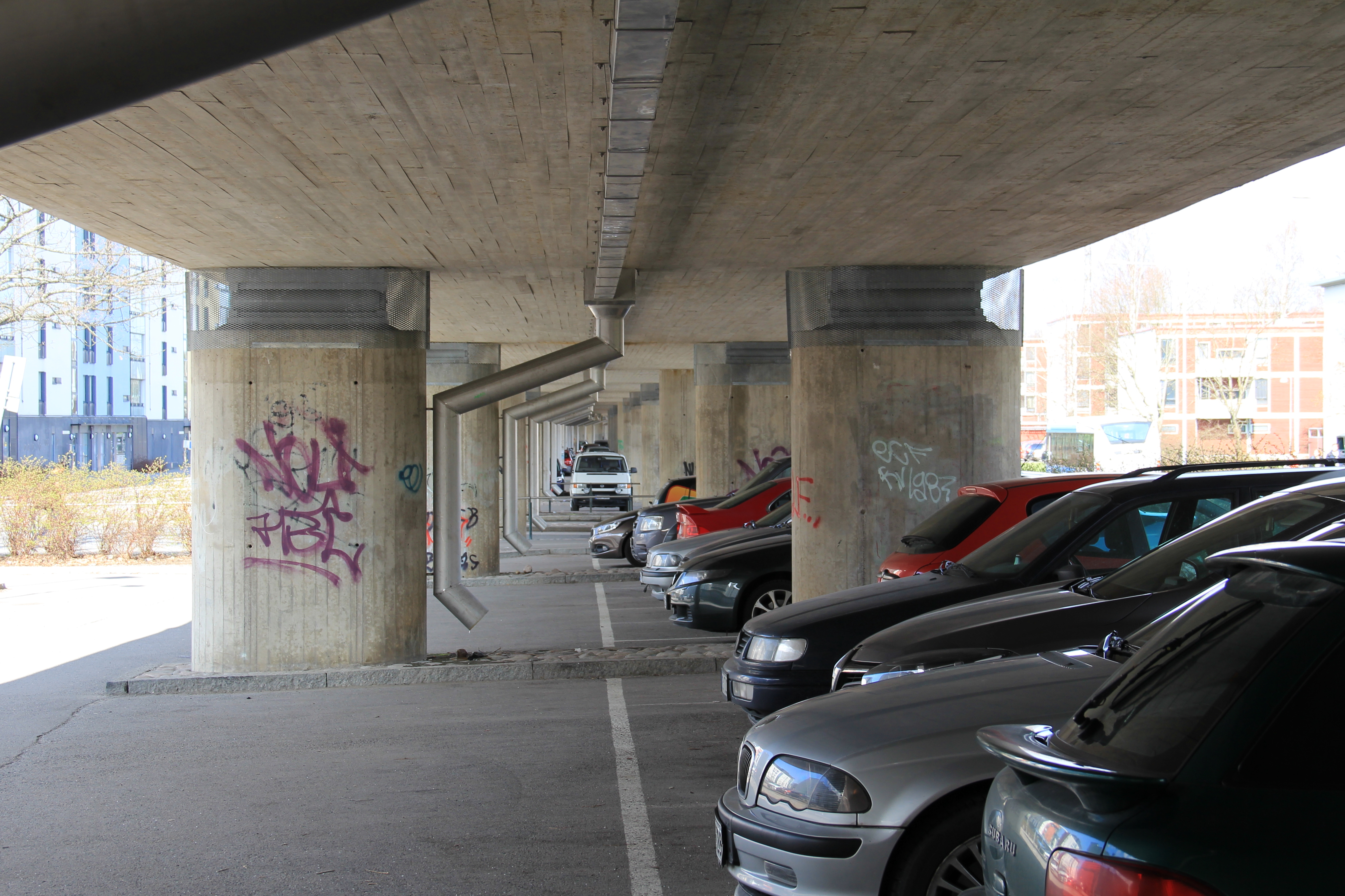 Piijoki railway bridge, Kannelmäki, Helsinki Finland.